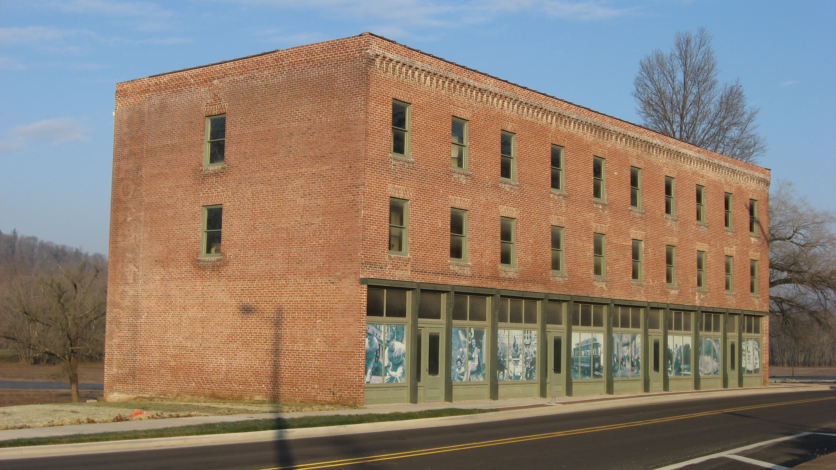 Front and southern end of the Oxford Hotel, located on the western side of Broadway Street (State Road 56) between First and Second Streets in West Baden Springs, Indiana, United States. Built in 1910, it is listed on the National Register of Historic Places.